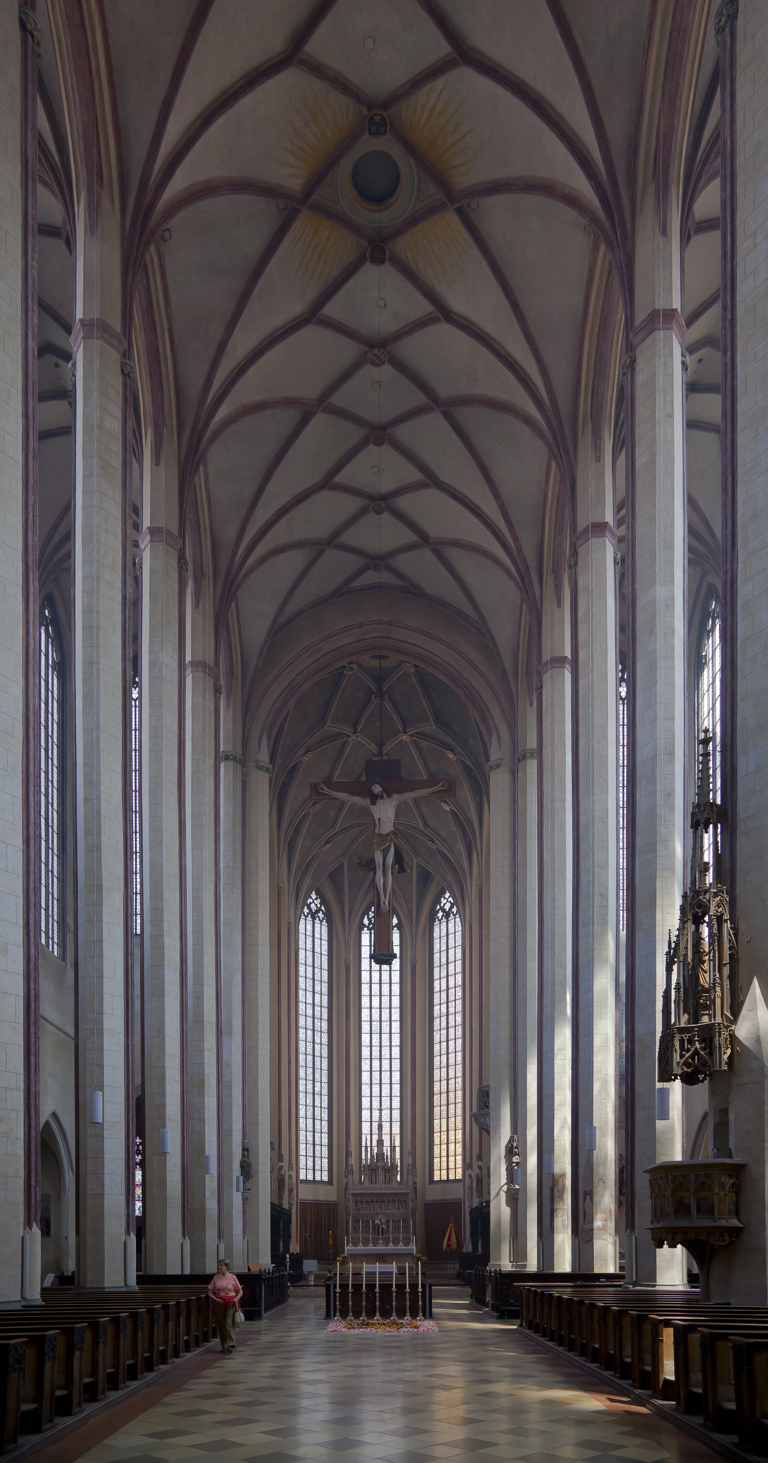 St. Martin church, Landshut, Germany